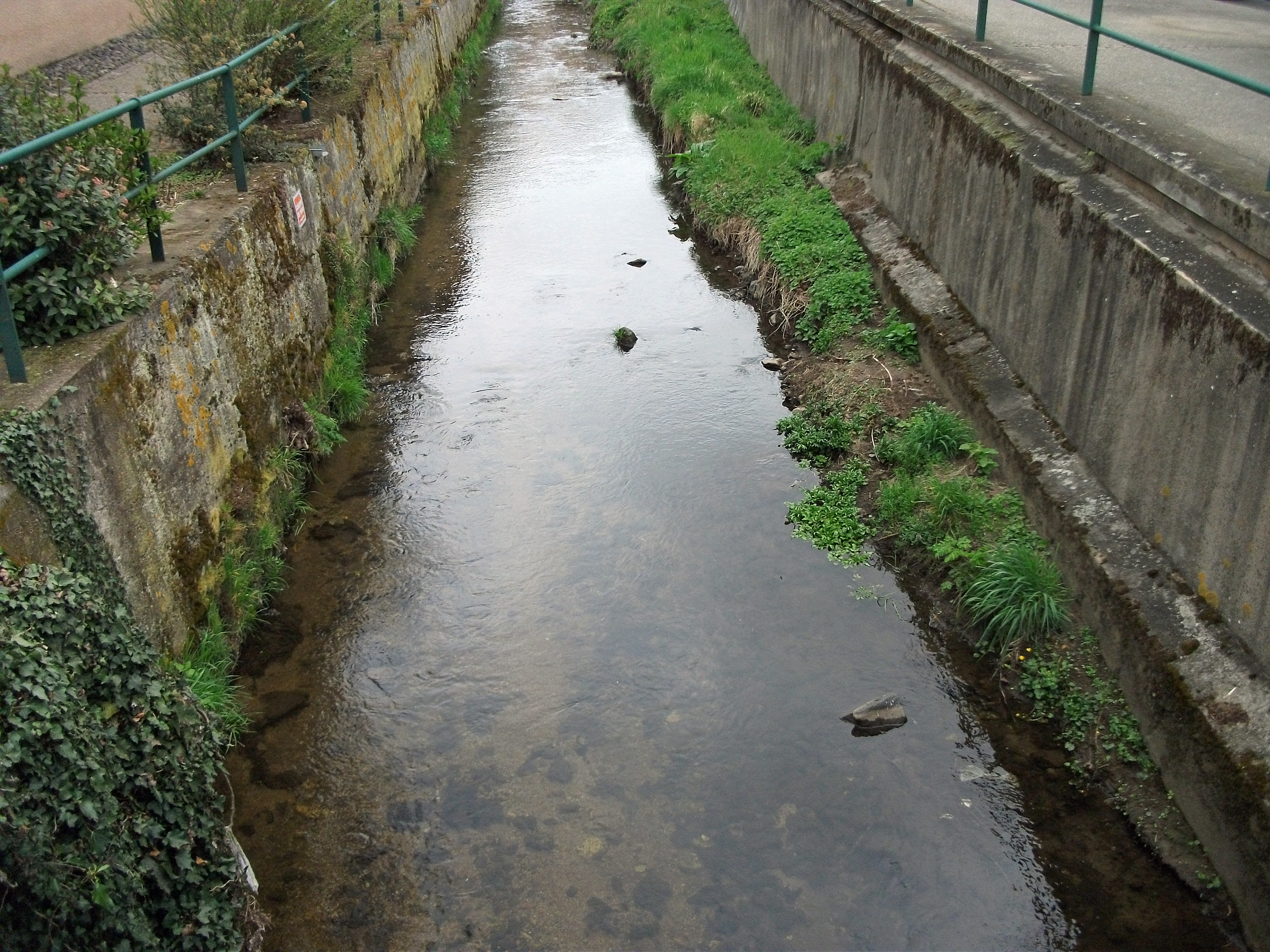 Artière river in Aubière, Puy-de-Dôme, France, near "Rue Bergère" point (elevation 373 m/1,224 ft)